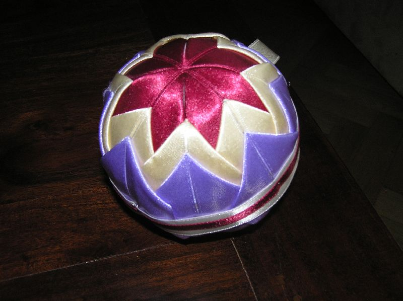 artichoke method